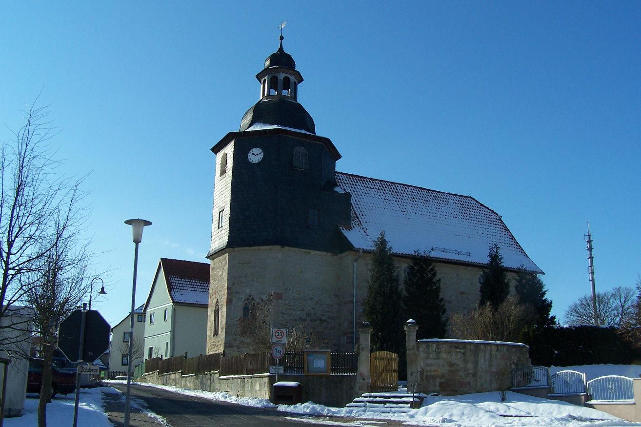 The church in Witzelroda.